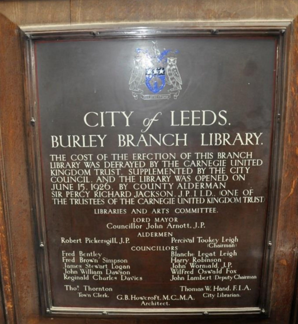 Plaque in entrance hall of library celebrating its origins